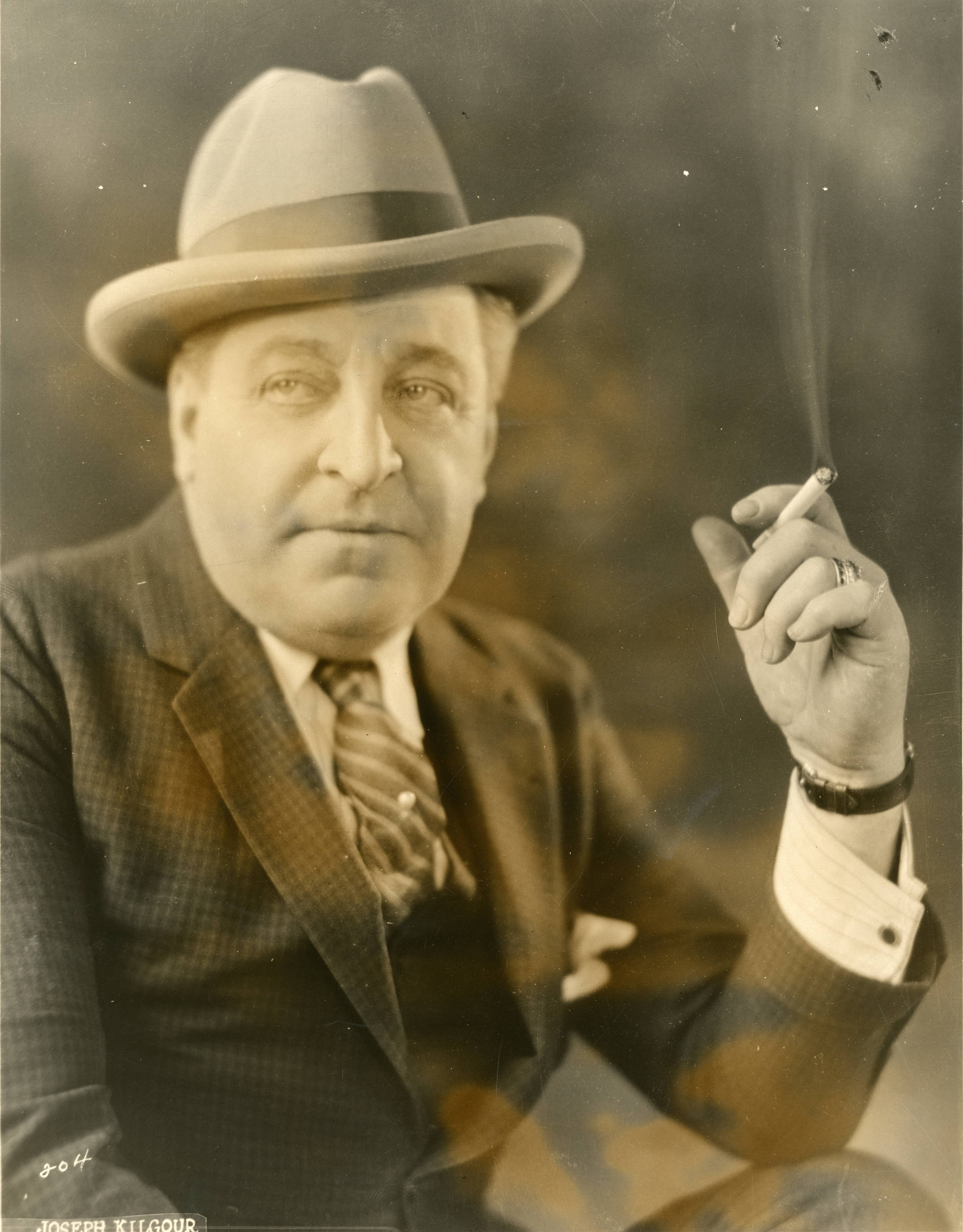 Joseph Kilgour, film actor Subjects: actors